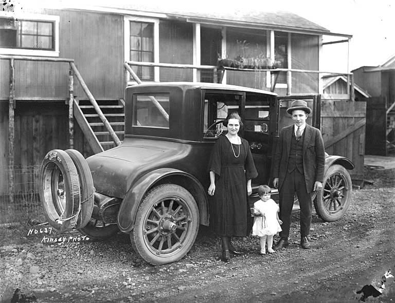 John Schafer with wife Neta Smith Schafer and daughter Bernice beside 1922 Buick Six automobile at railroad logging camp, ca. 1924. John Schafer was born in Washington state in 1894. His father was born in Wisconsin and his mother in Germany. Neta F Schafer was born September 16, 1898 and died in Aberdeen, Washington January 12, 1993 at 94 years old. Photographer: Kinsey, Clark Subjects (LCSH): Schafer, John, 1893-1956 Schafer, Neta Smith Schafer, Bernice Buick automobile Digital Collection: Clark Kinsey Photographs Item Number: CKK0724 Persistent URL: Visit Special Collections reproductions and rights page for information on ordering a copy. University of Washington Libraries. Digital Collections